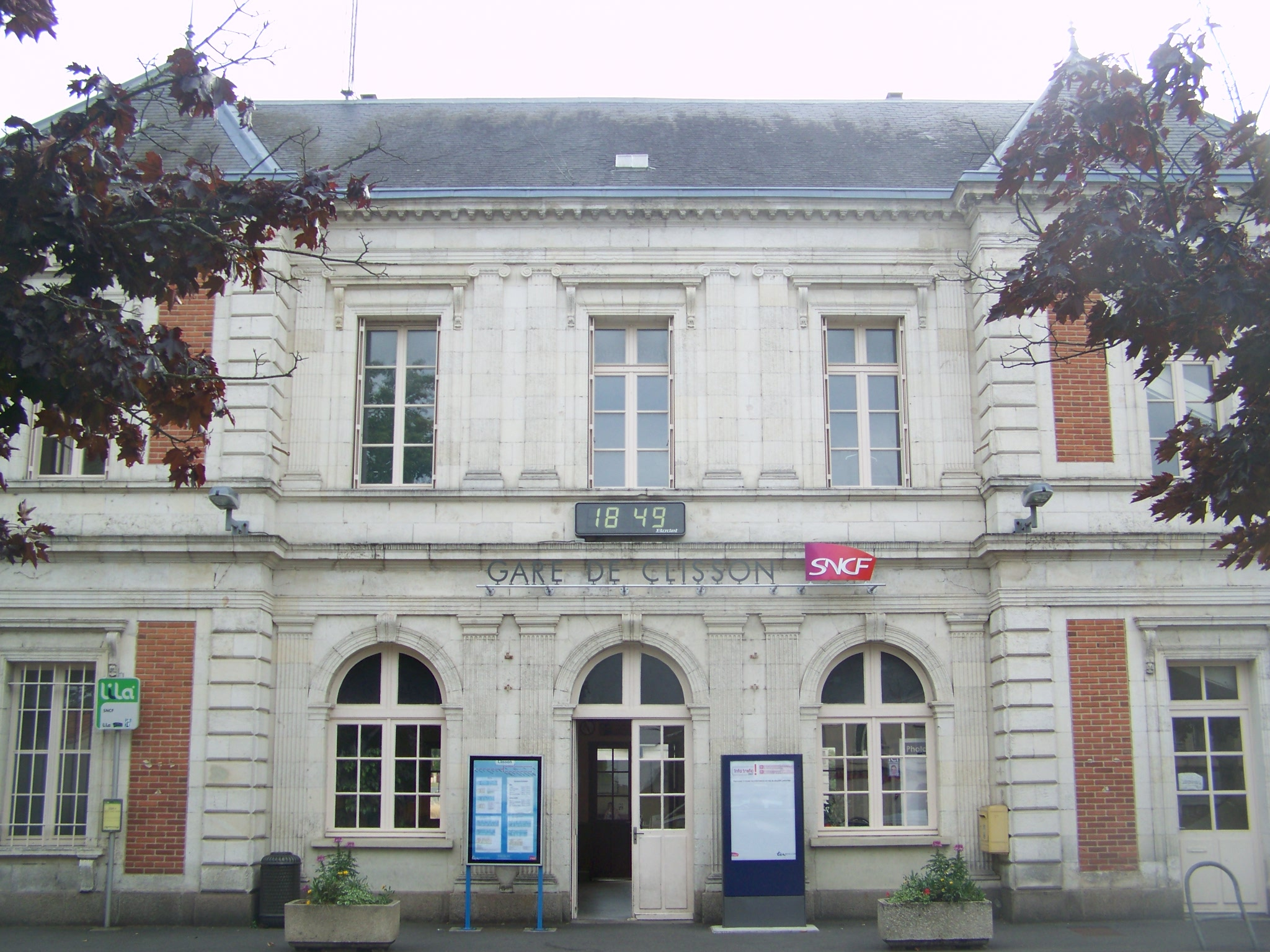 Front of the building of Clisson railway station in Loire-Atlantique, France.